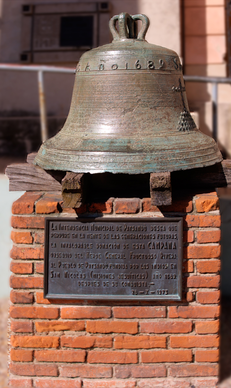 Bell donated by General Fructuoso Rivera to the Paysandu Village, founded by the Indians in San Nicolas (Jesuit Missions) in 1689.